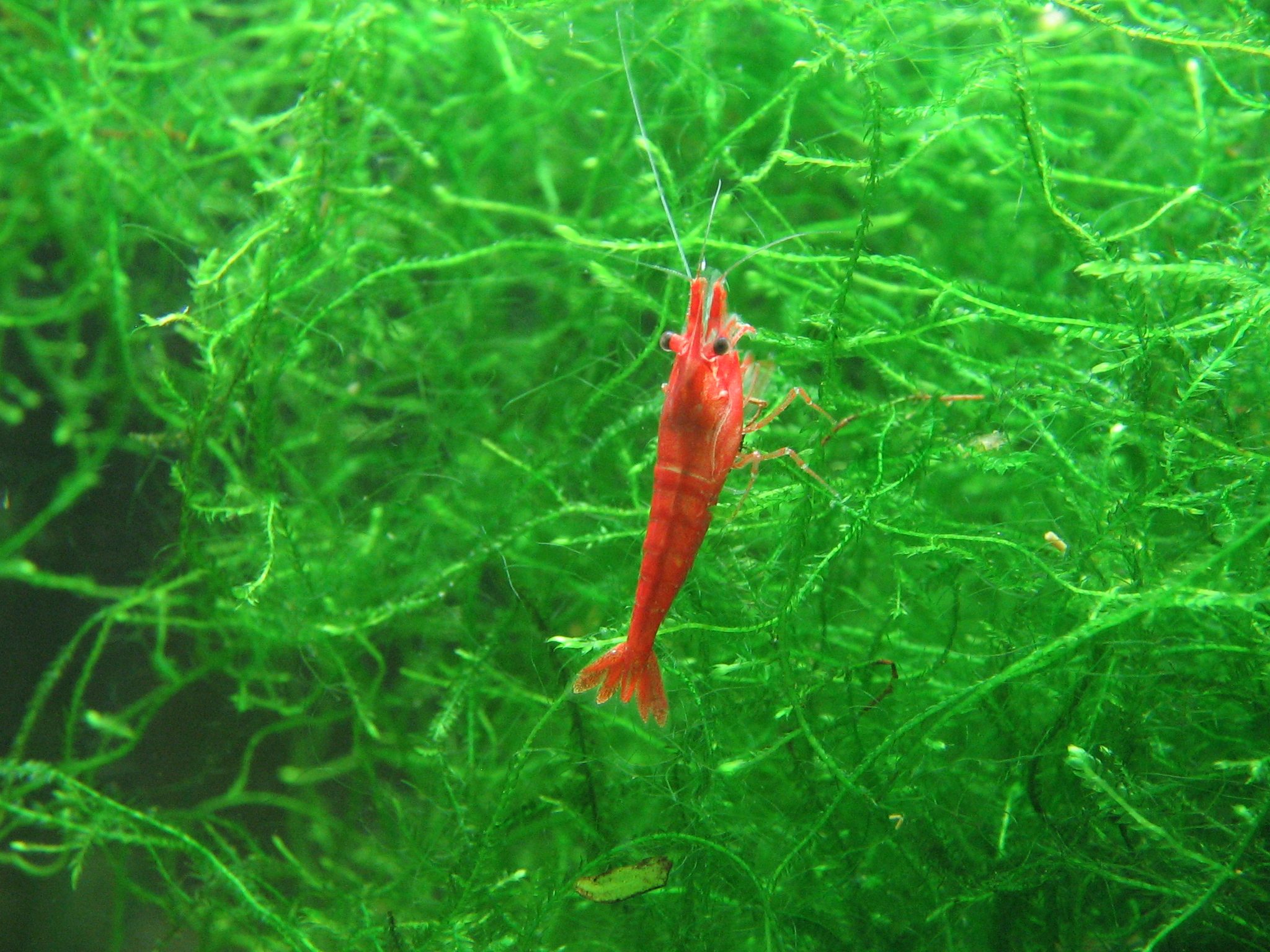 red cherry, crevette, crevette d'eau douce, shrimp